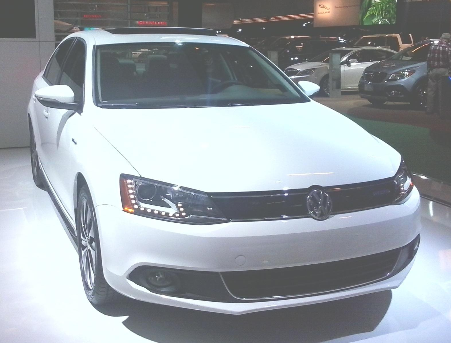 2013 Volkswagen Jetta Hybrid photographed in Montreal, Quebec, Canada at the 2013 Montreal International Auto Show.